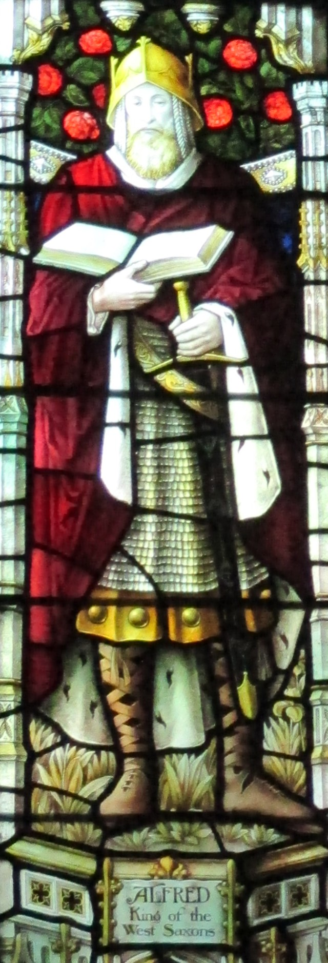 Detail of the left east window of the Regimental Chapel of the King's Own Royal Regiment in Lancaster Priory, Lancaster, Lancashire. It was produced c. 1910 by Shrigley and Hunt from designs by Edward Holmes Jewitt.